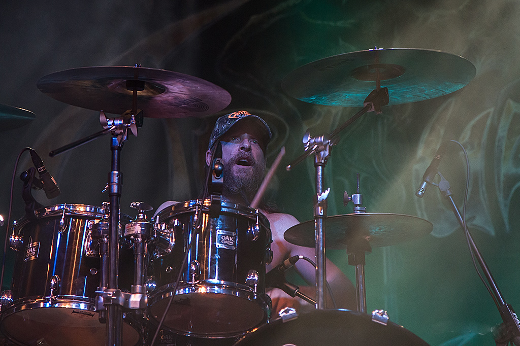 Obituary - 7.12.2012 - Music Hall, Geiselwind